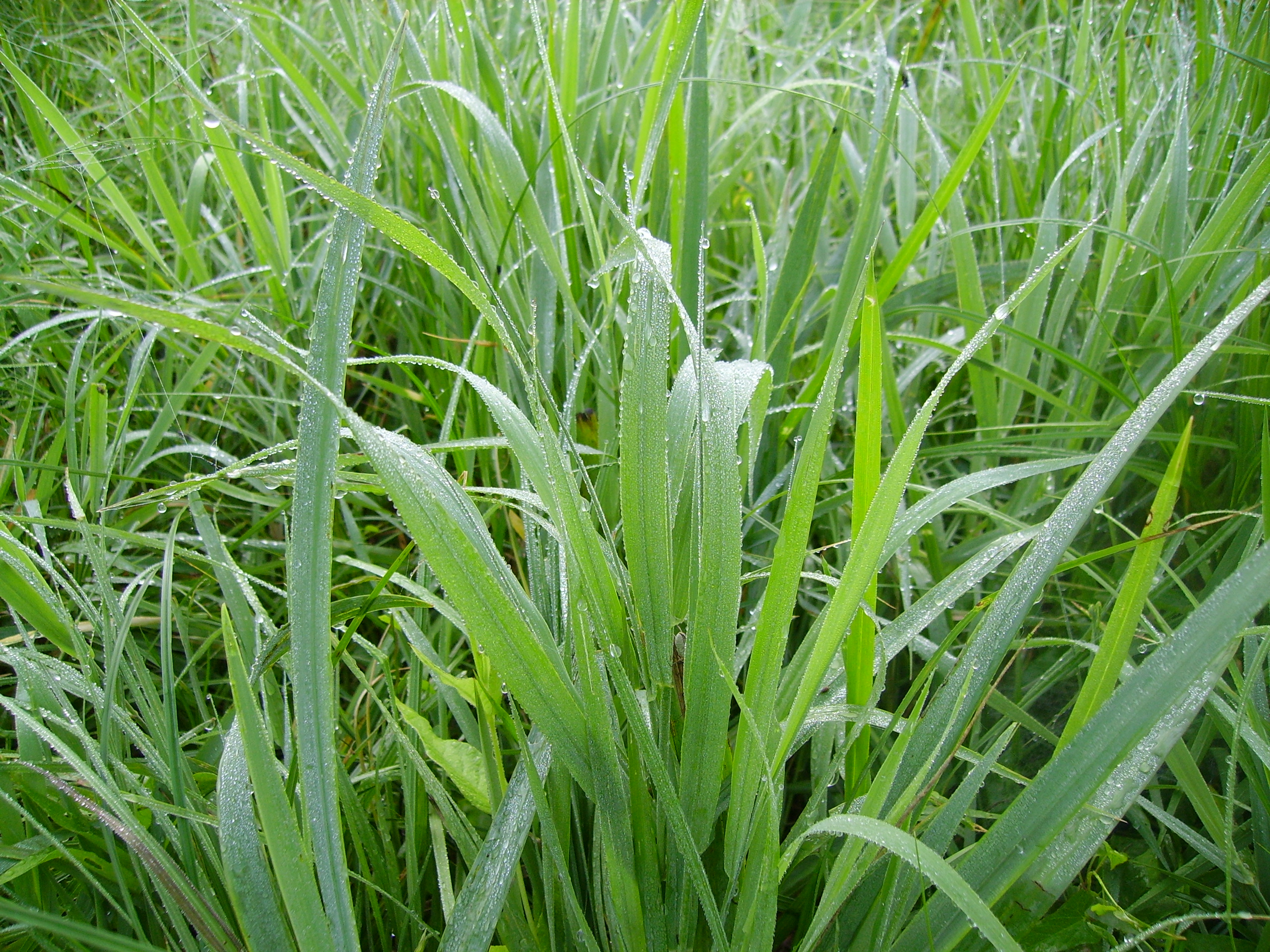 Dew on the grass